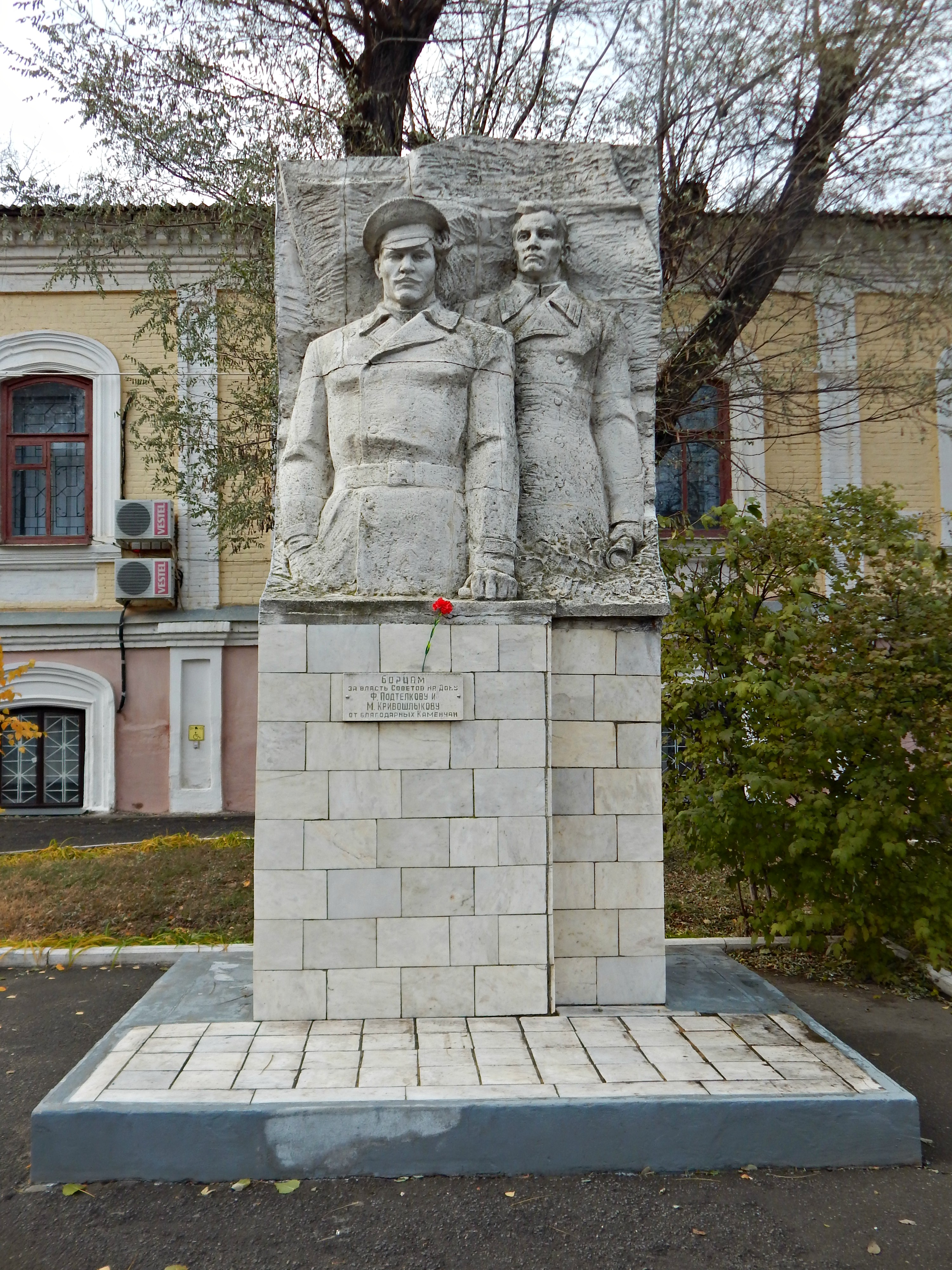 The building of the first in the Don area military and revolutionary committee headed by F. G. Podtelkov and M. V. Krivoshlykov: Rostov region, Kamensk-Shahtinskiy, prospekt Karla Marksa, 56